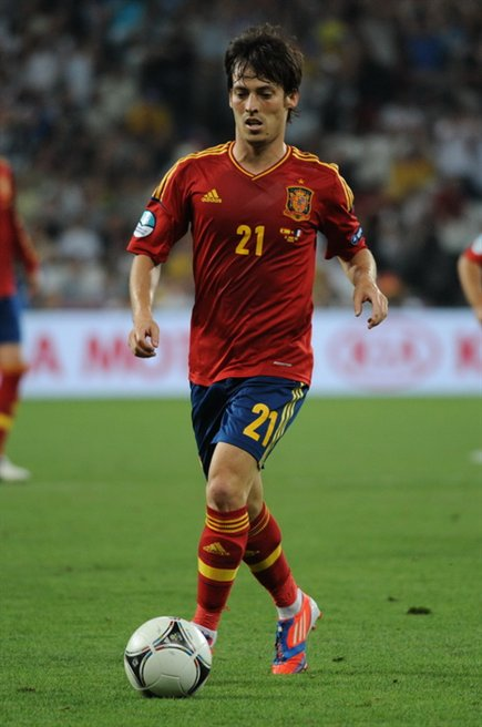 David Silva at Euro 2012 match Spain-France